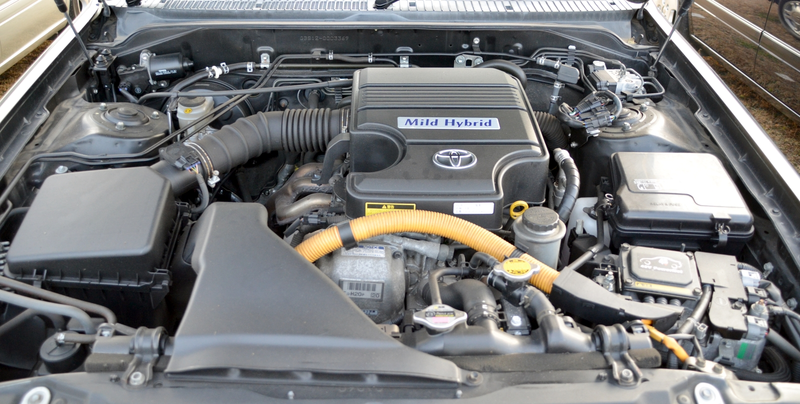 Toyota 1G-FE engine with THS-M